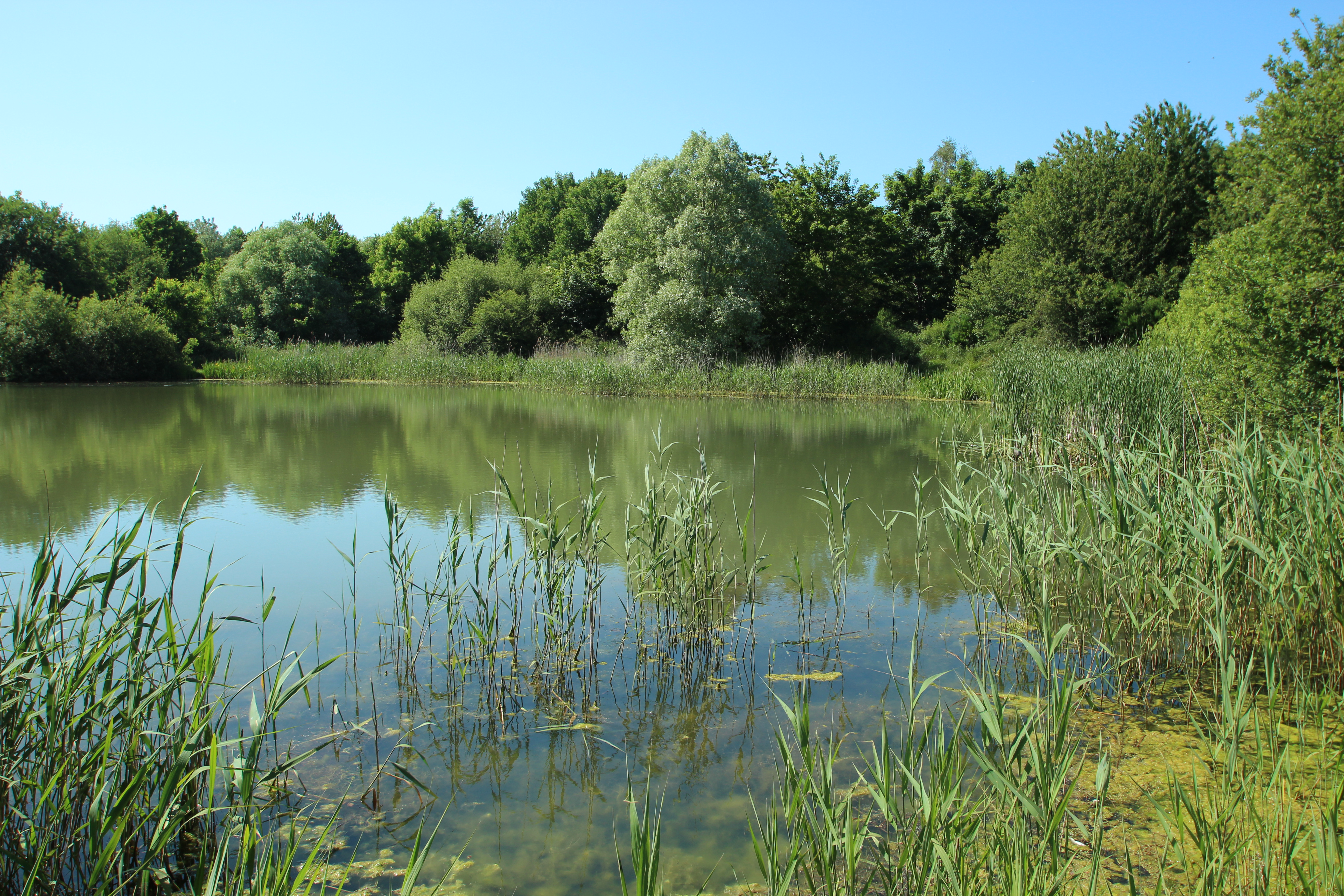 Noës pond in Le Mesnil-Saint-Denis in the Yvelines department in France.